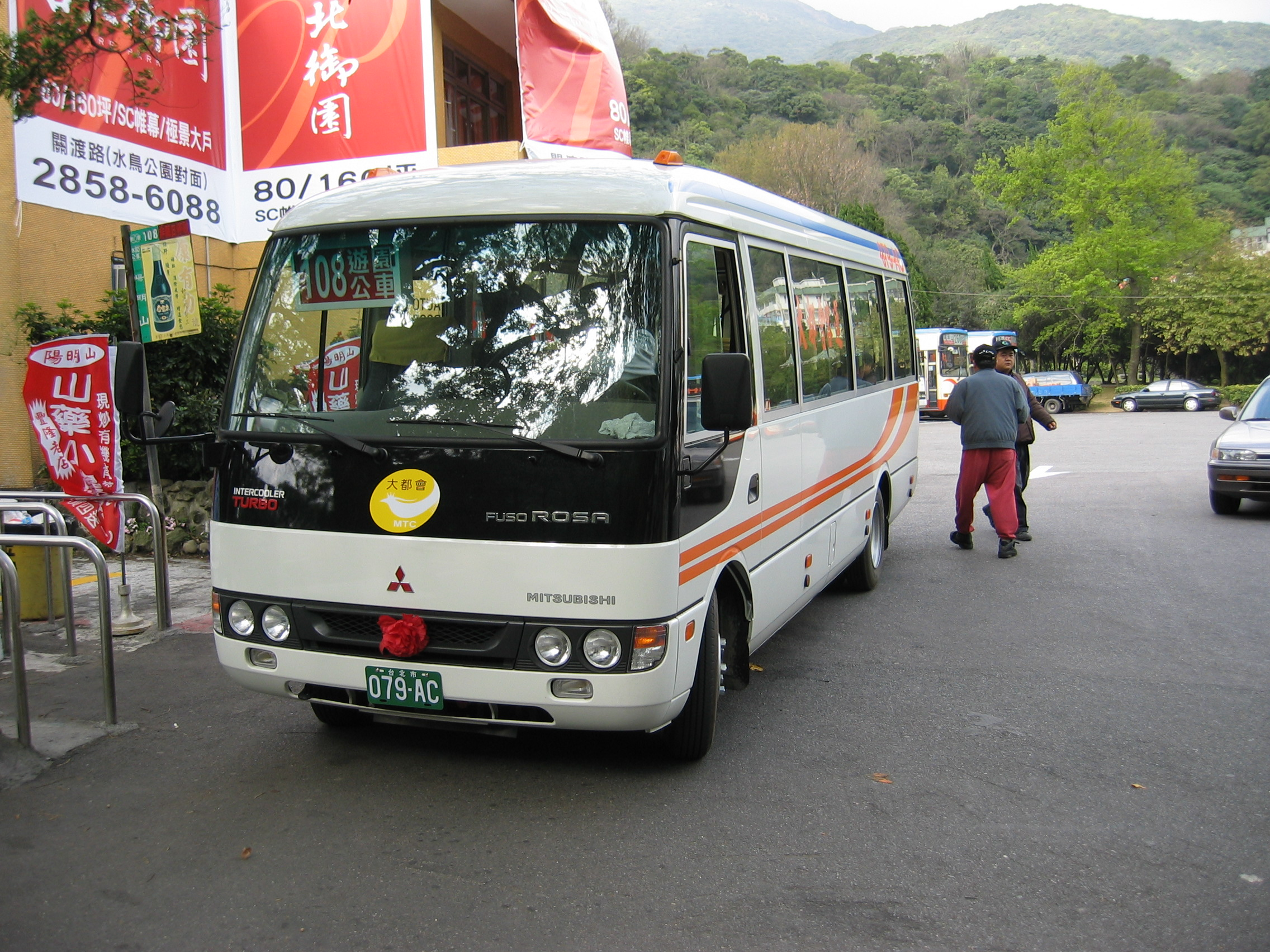 Metropolitan Transport Corporation - Yangmingshan 108 route (079AC).